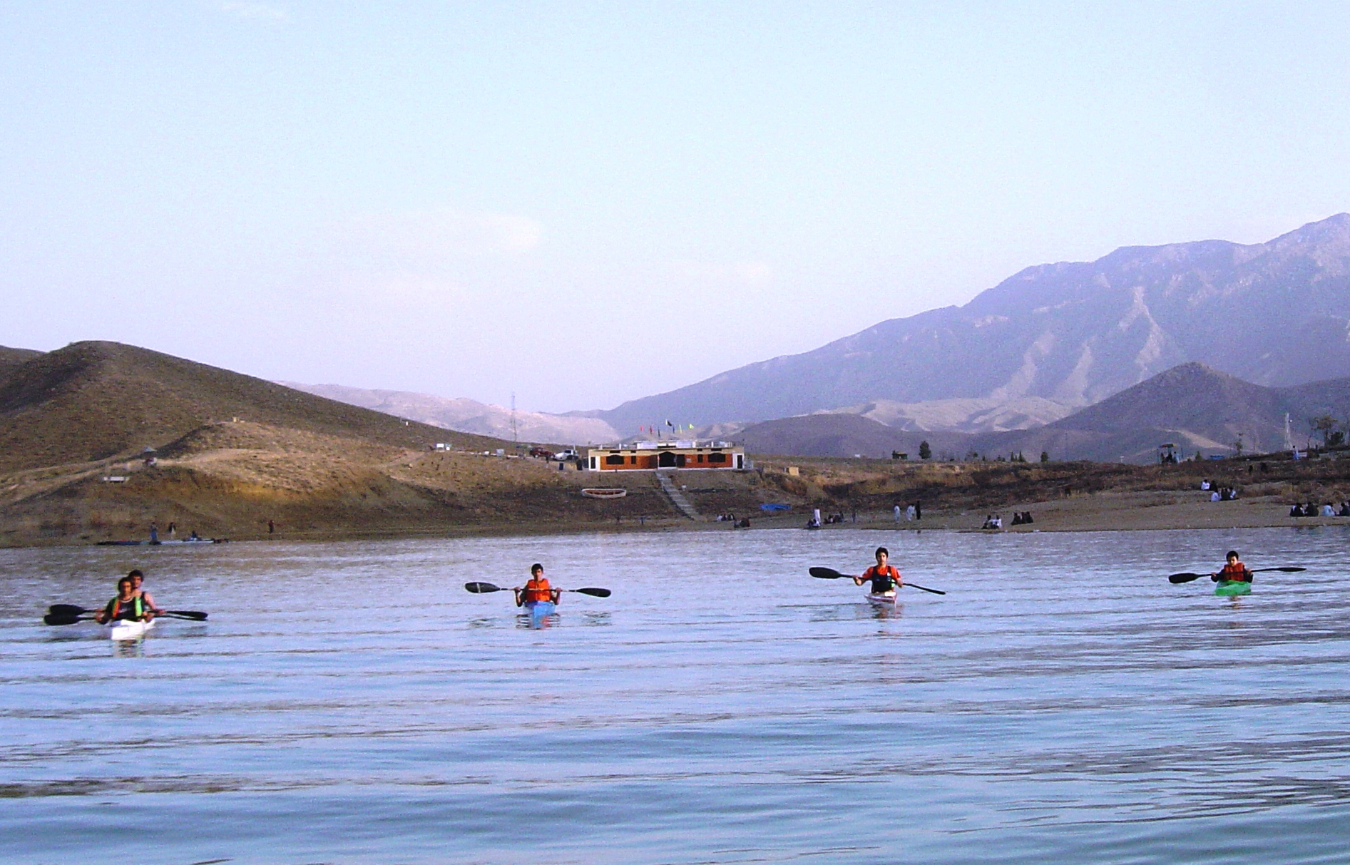 Modern building of Hayat Durrani Water Sports Academy (HDWSA) at Hanna Lake Quetta. constructed in 2005 replacing the old building of HDWSA was constructed in 1989.